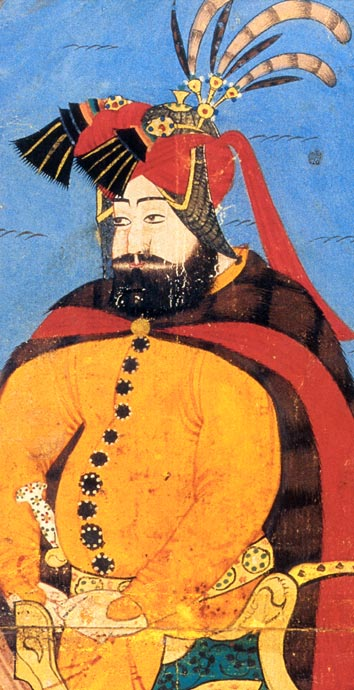 Sultan Murat IV on his way to the Baghdad campaign, dressed in the armour of an Arab. Topkapı Sarayı Müzesi, Istanbul (Inv. H 2134, Fol 1r)